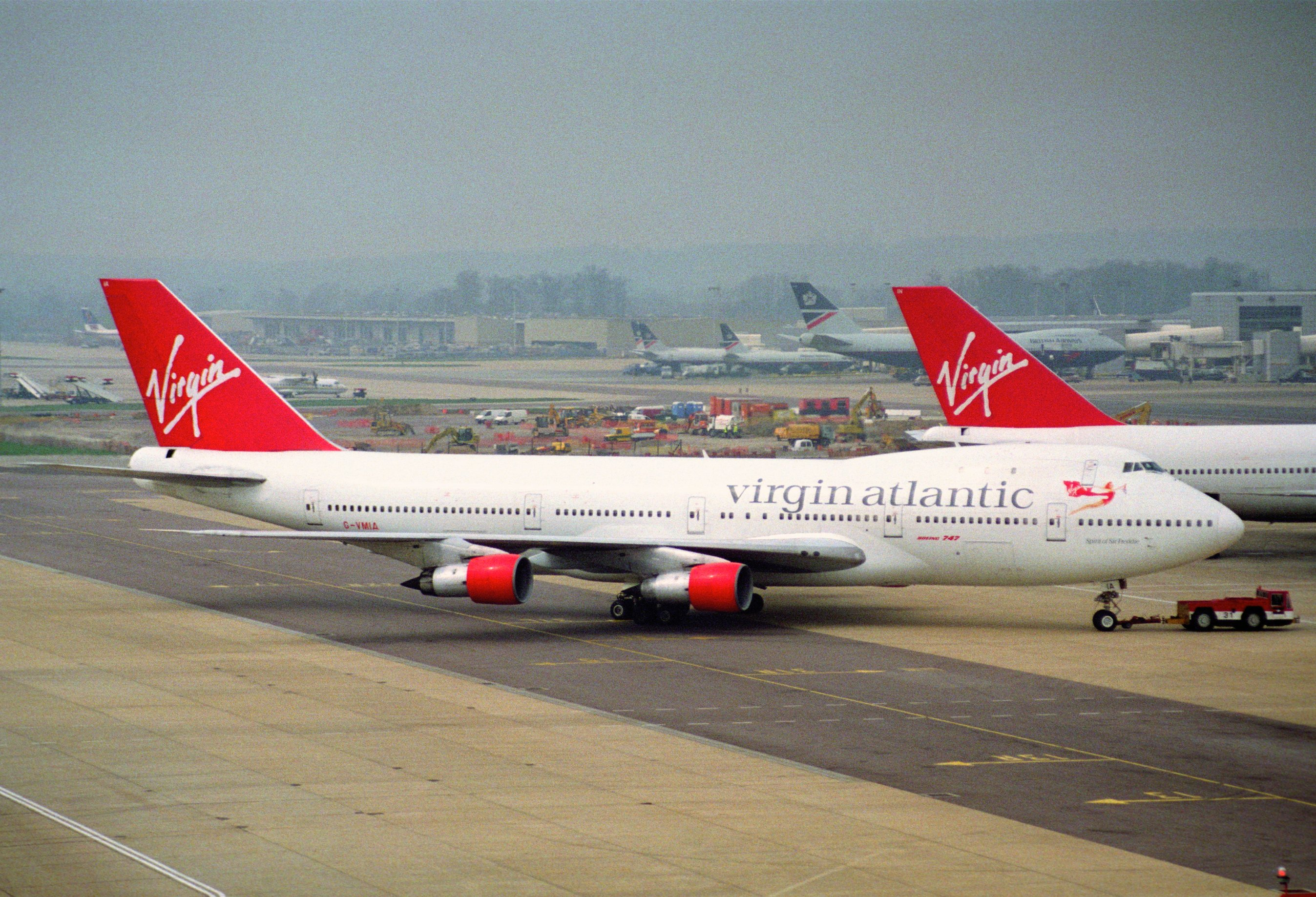 This Boeing 747-123 took its first flight on October 28, 1970...(c/n 20108/ 87) 27/11/1970 American Airlines N9669 11/05/1984 American Airlines N9669 27/07/1984 National Airlines N9669 01/08/1986 Citicorp N14939 25/03/1987 Highland Express G-HIHO 08/02/1988 Qantas VH-EEI 01/04/1988 Air Pacific VH-EEI 15/11/1989 Qantas EI-CAI 22/03/1990 Virgin Atlantic G-VMIA scrapped In 2000